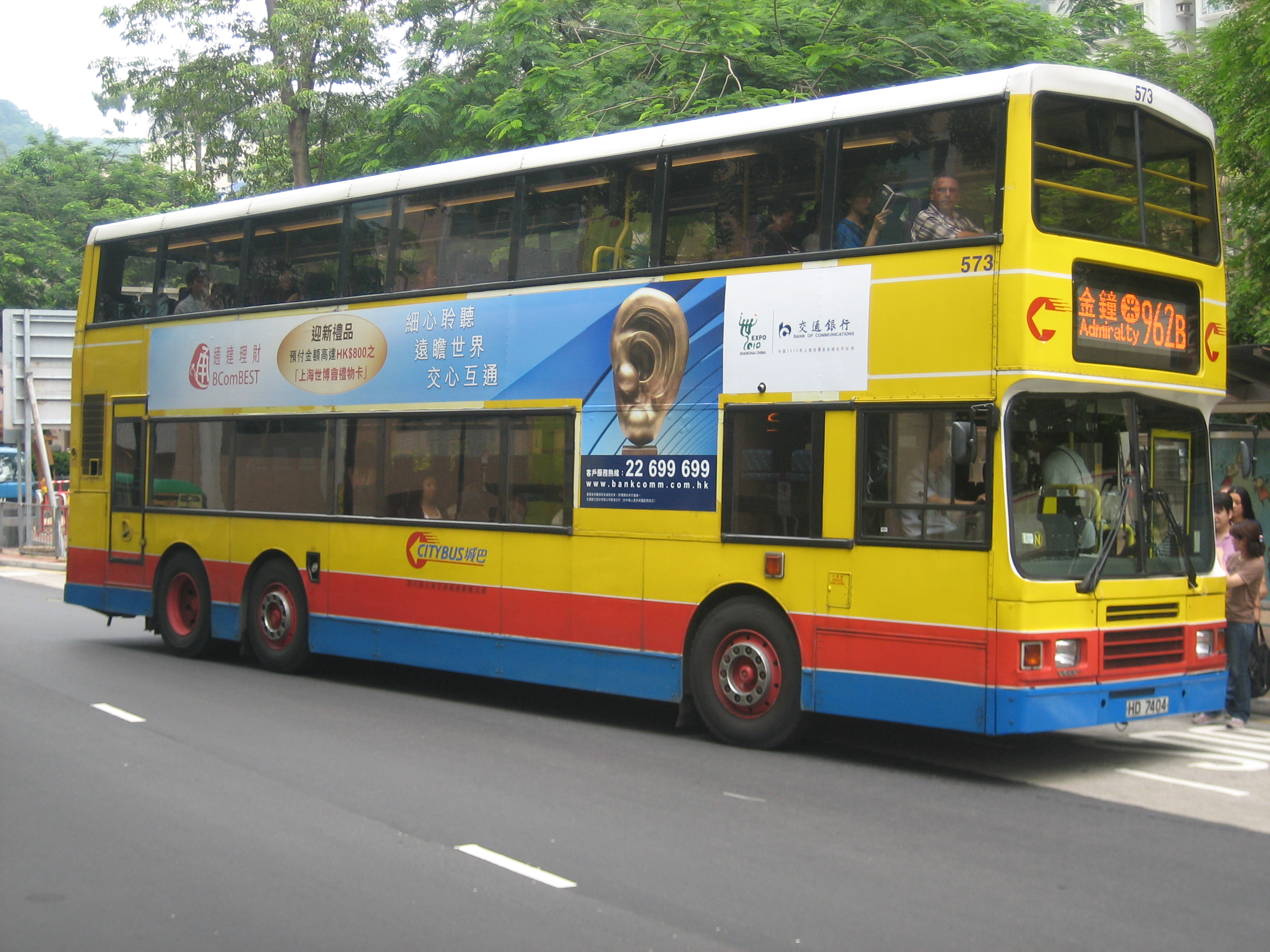 Citybus Route 962B Volvo Olympian bus,taken in Rhine Garden bus stop